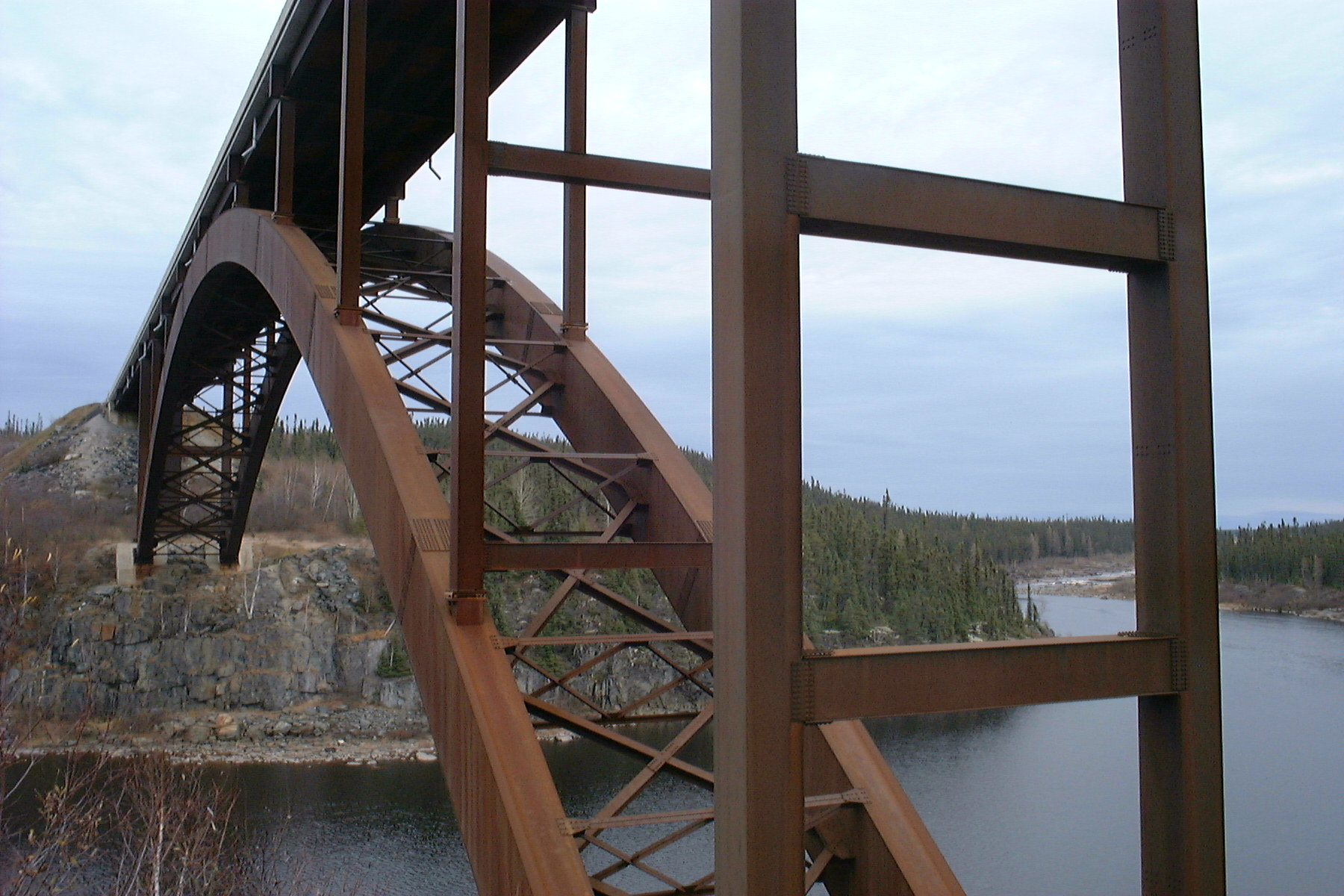 The 274-meter long Eastmain Bridge on the James Bay Road, at kilometer 394. The bridge was built in 1972-1973.